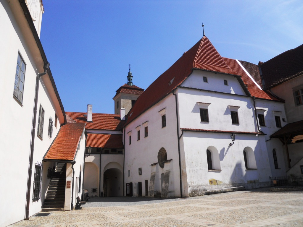 Strakonice castle palace from the courtyard